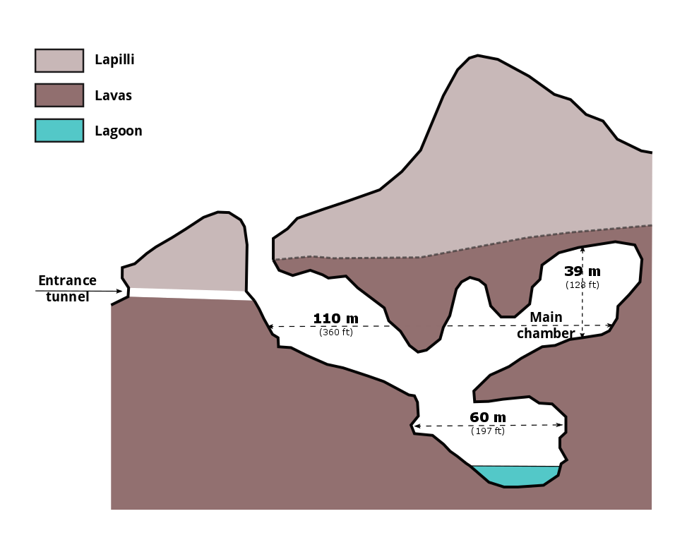 A profile of the Algar do Carvão, based on a similar cutaway produced by "Os Montanheiros", in the civil parish of Porto Judeu, municipality of Angra do Heroísmo (Azores), Portugal